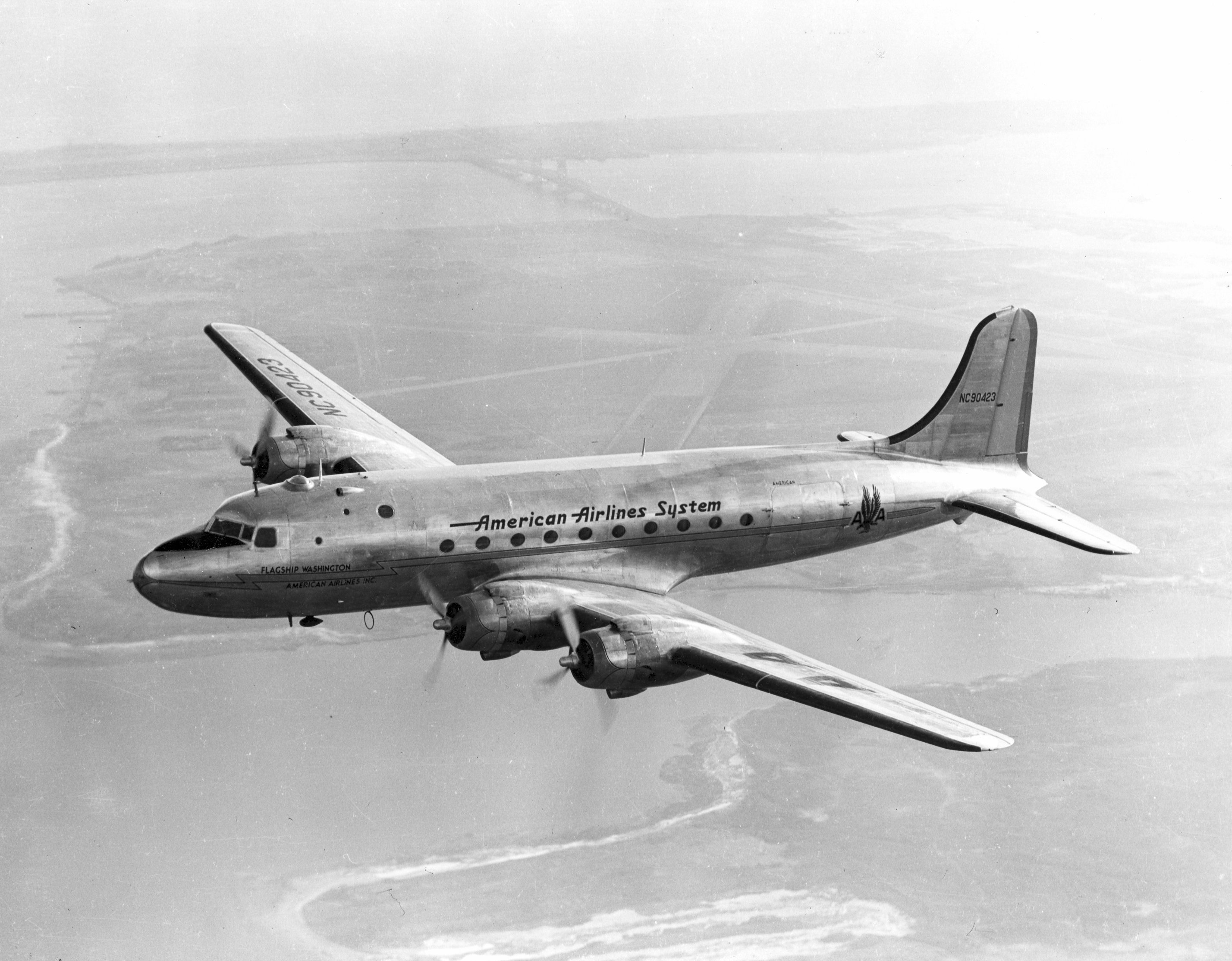 Catalog #: 01_00091391 Title: Douglas, C-54B, Skymaster Corporation Name: Douglas Aircraft Designation: C-54B Official Nickname: Skymaster Tags: Douglas, C-54B, Skymaster Additional Information: USA, Originally built in 1943 for USAAF as 43-17192. To American Airlines in 1945. Eventually written off in Columbia in 1973 flying for Avianca. Repository: San Diego Air and Space Museum Archive